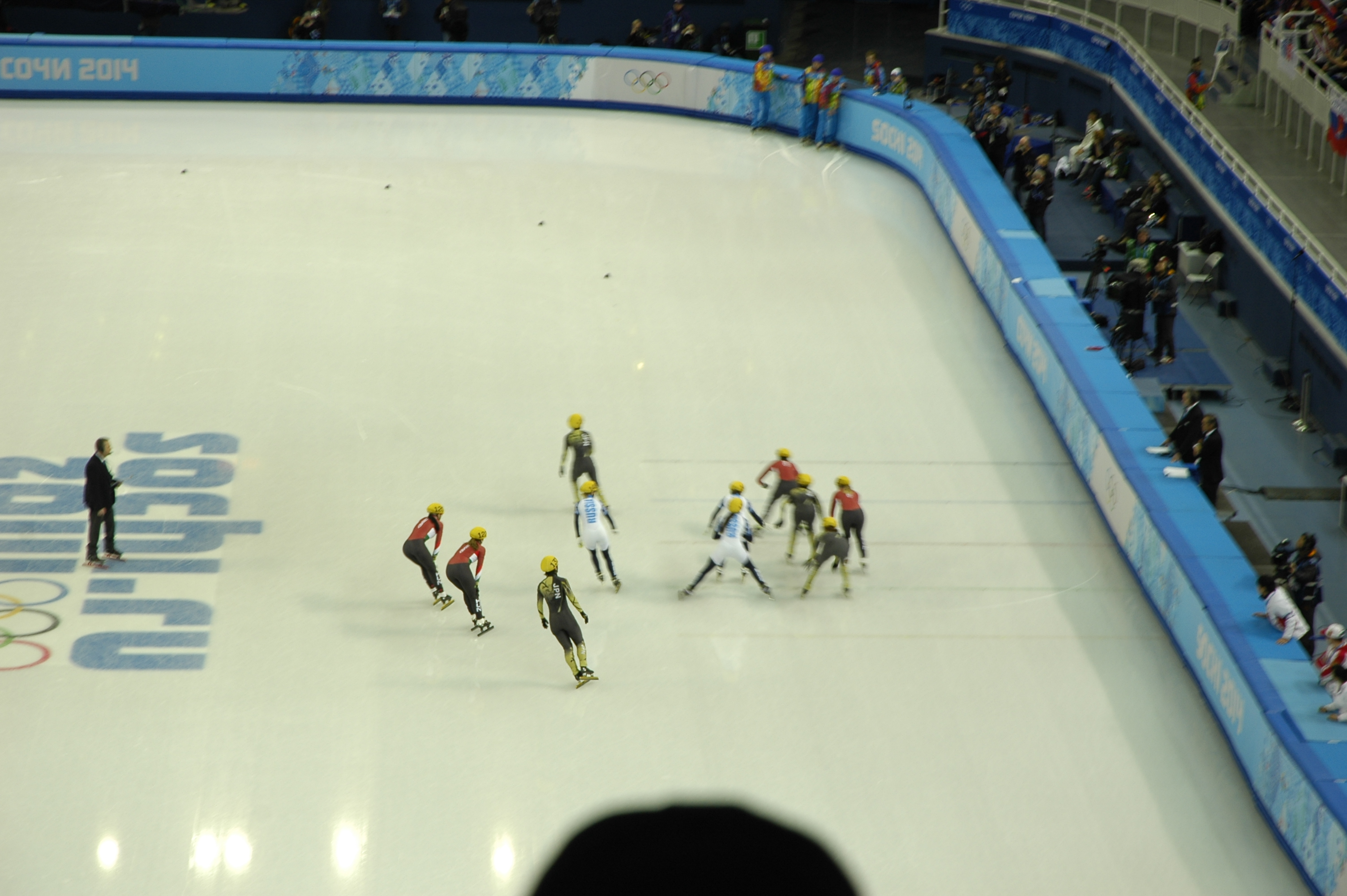 Short track speed skating at the 2014 Winter Olympics – Women's 3000 metre relay, Final B 4 Russia Olga Belyakova Tatiana Borodulina Sofia Prosvirnova Valeriya Reznik 4:14.862 5 Japan Ayuko Ito Yui Sakai Biba Sakurai Sayuri Shimizu 4:15.253 6 Hungary Rózsa Darázs Bernadett Heidum Andrea Keszler Szandra Lajtos 4:24.496